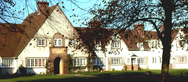 Main Square in Forteviot